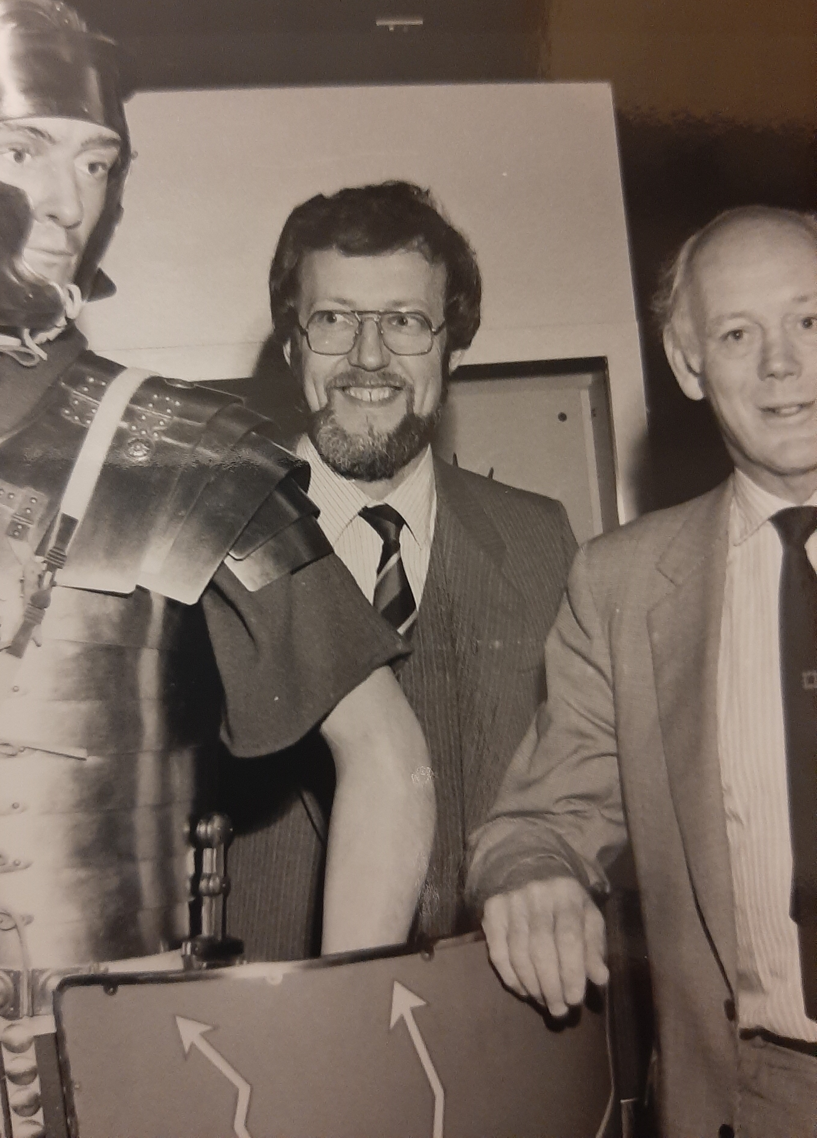 Terence (Terry) Suthers, Curator of the Yorkshire Museum at the opening of the new Roman Gallery, 23 May 1985